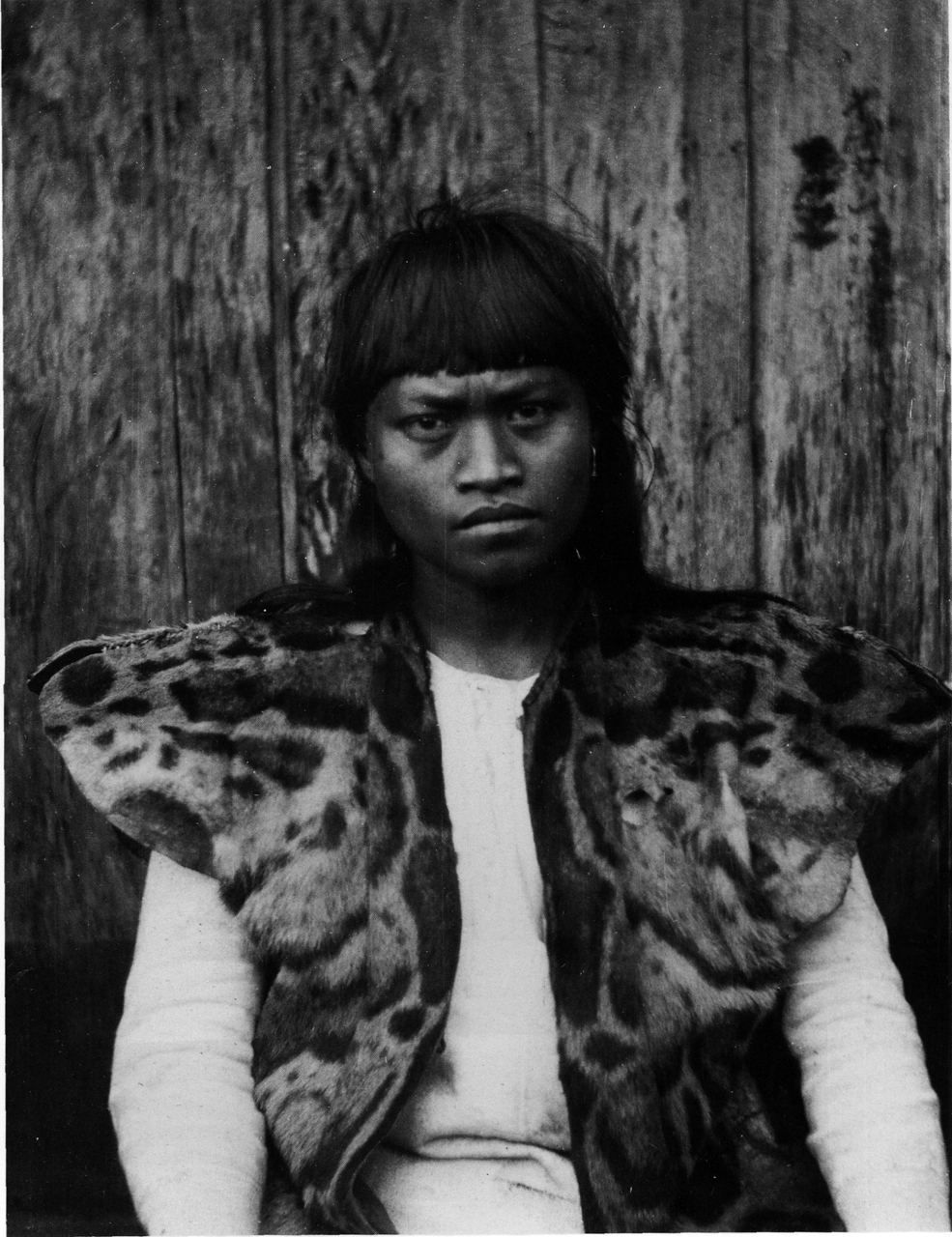 Taiwanese Aboriginal male wearing a clouded leopard fur (presumably of the extinct subspecies Neofelis nebulosa brachyurus, Formosan Clouded Leopard, 台灣雲豹). This photograph by Japanese anthropologist Torii Ryūzō is undated, but was most likely created around 1900, when Torii was in Taiwan. Man's tribal affiliation unknown. However, his facial features and hair style resemble those of people also shown wearing a similar fur, who are identified as Rukai 魯凱族.